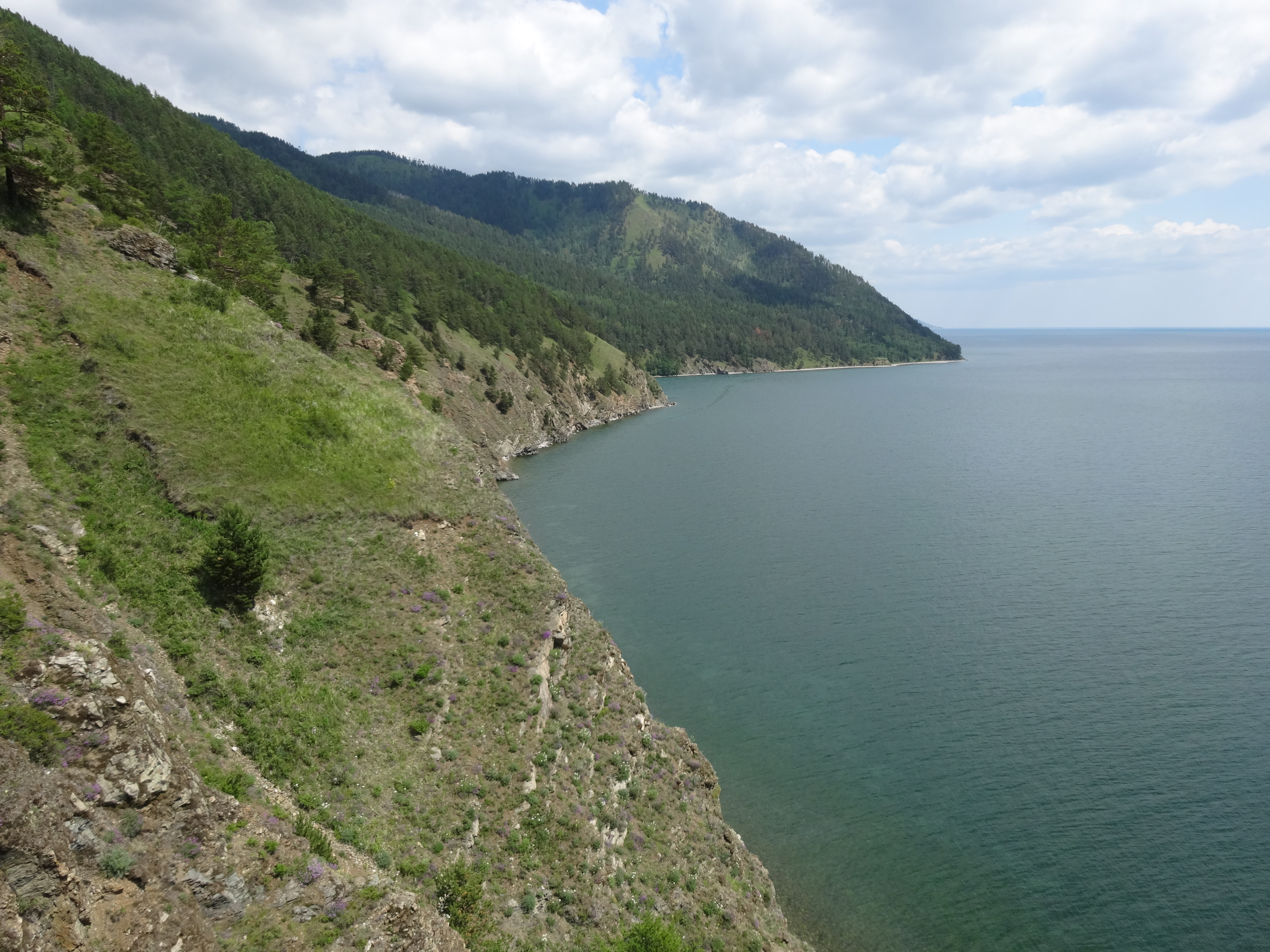 Shoreline of Lake Baikal Pribaikalsy National Park Russia